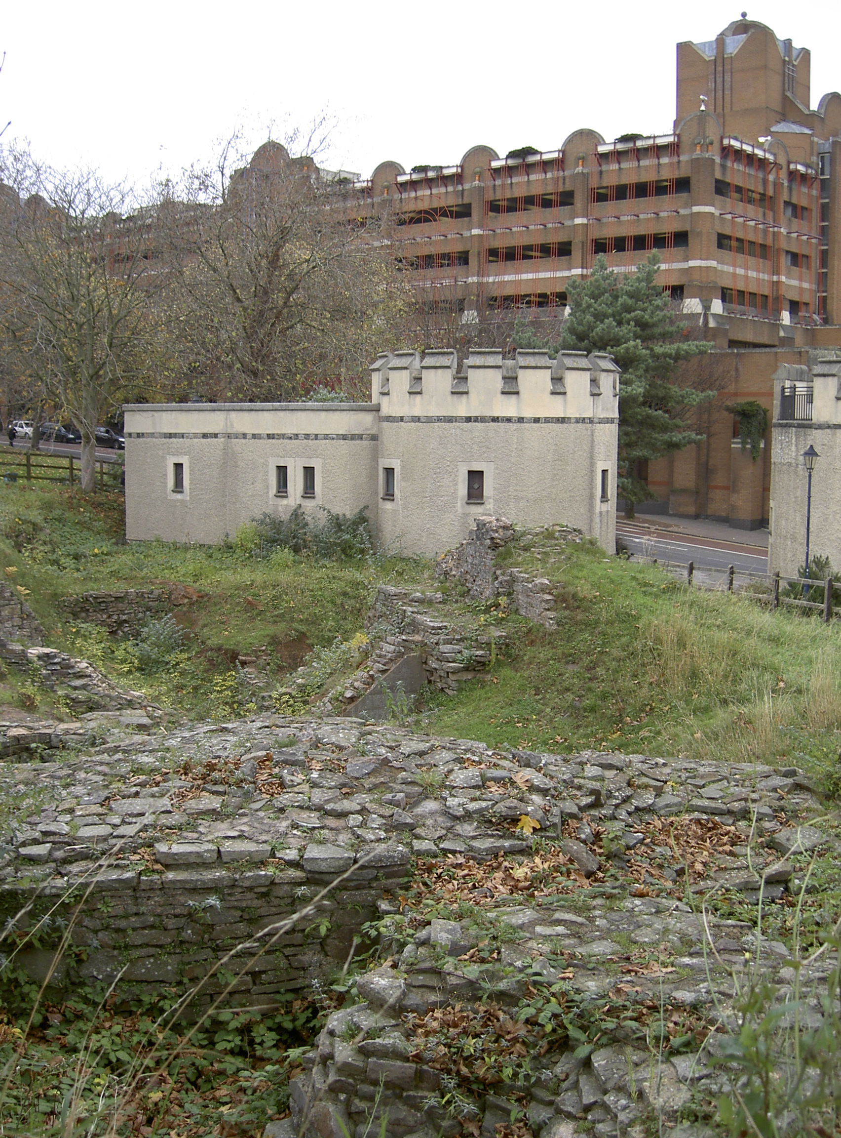 Ruins of Bristol Castle, Bristol, England, with modern castellated public convenience in background. Newgate Street behind, beyond which The Galleries shopping mall. Photo by Neil Owen titled "Imitation is the sincerest form of flattery".